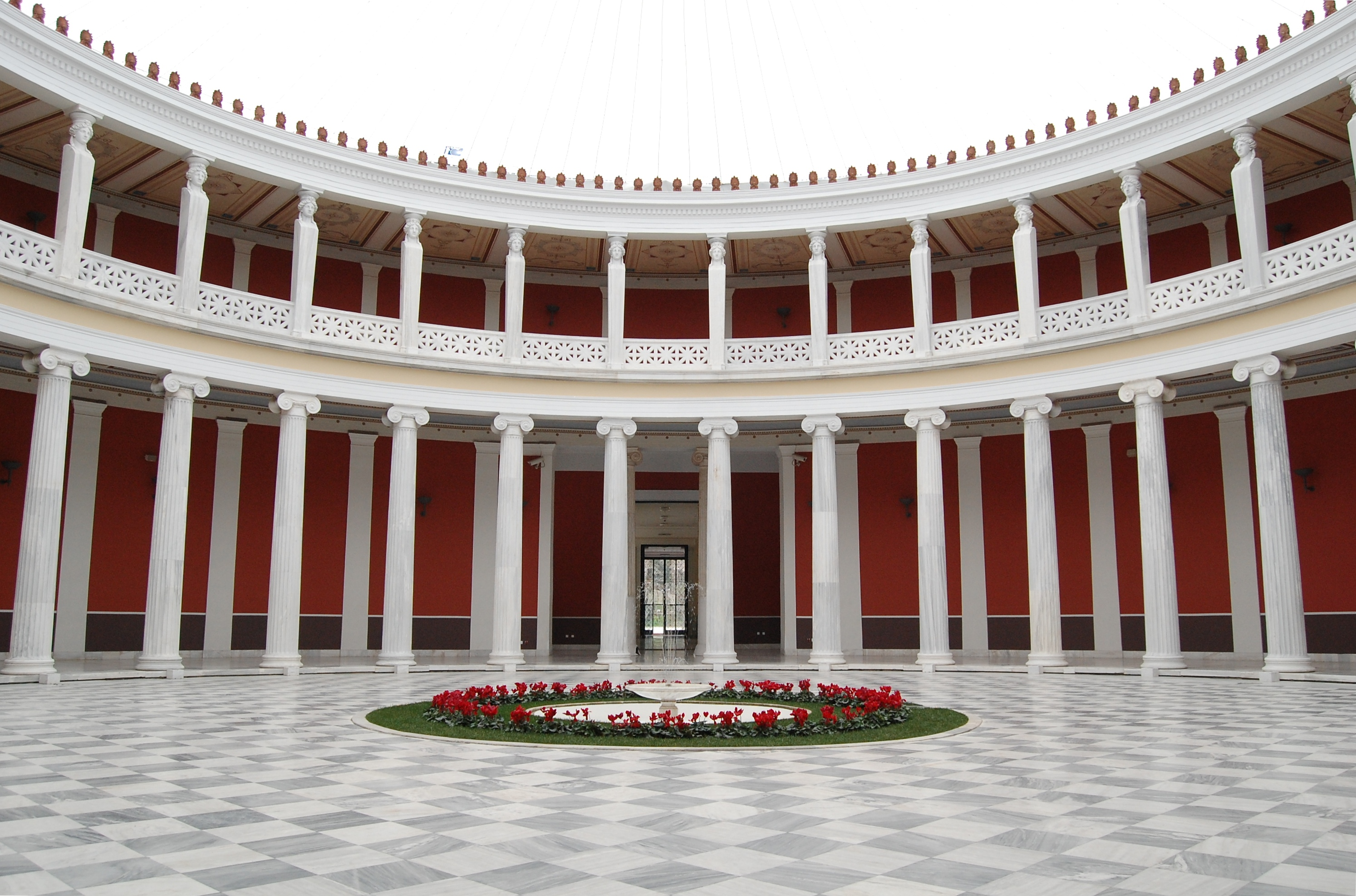 The atrium at the Zappeion convention center in Athens, Greece.